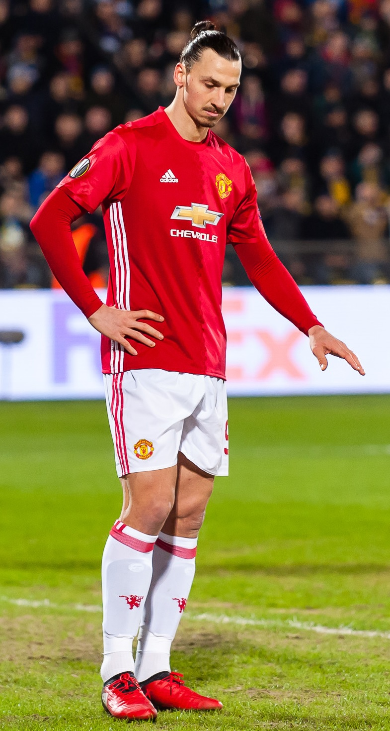 Manchester United footballer Zlatan Ibrahimović in 2017 UEFA Europa league match in Rostov, Russia.